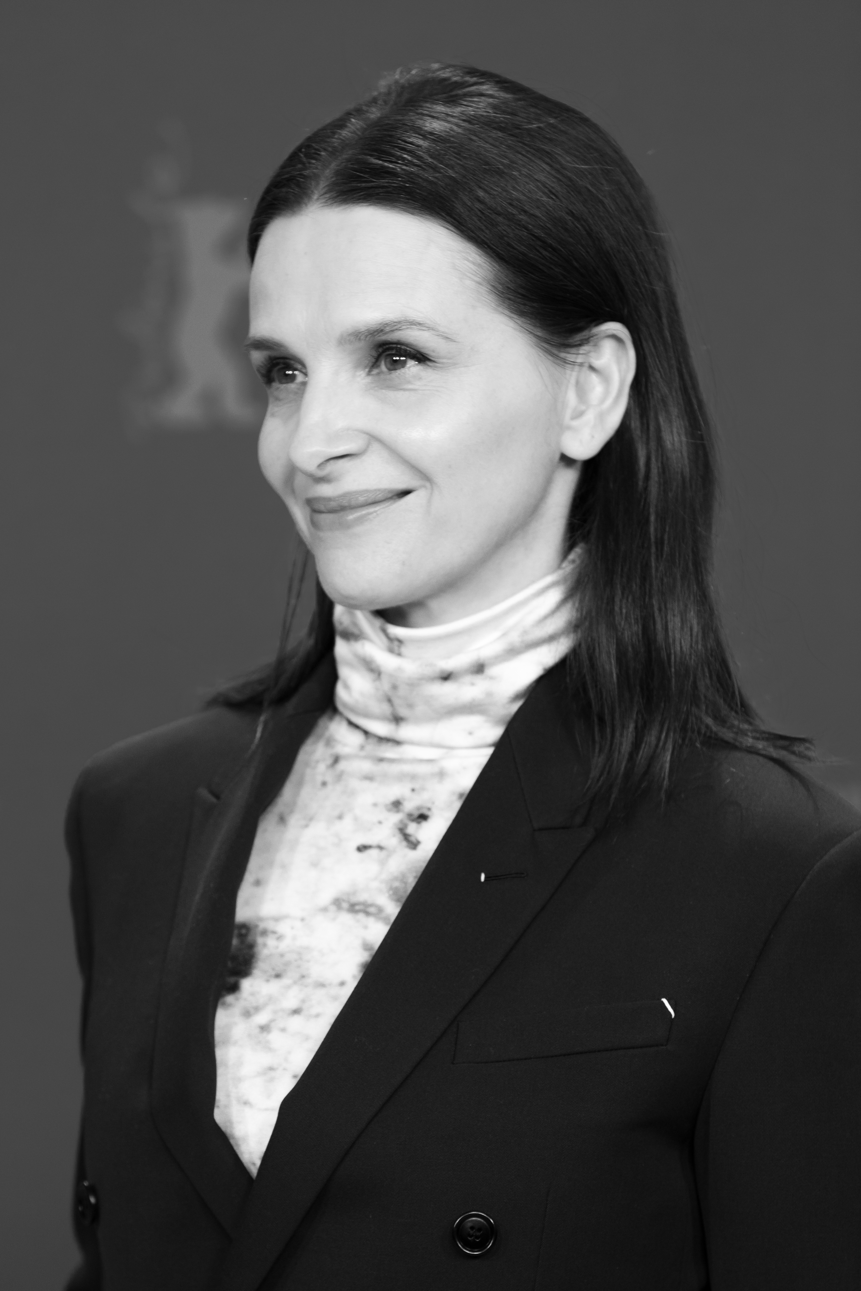 Juliette Binoche at the Photo Call of the International Jury of the Berlinale 2019